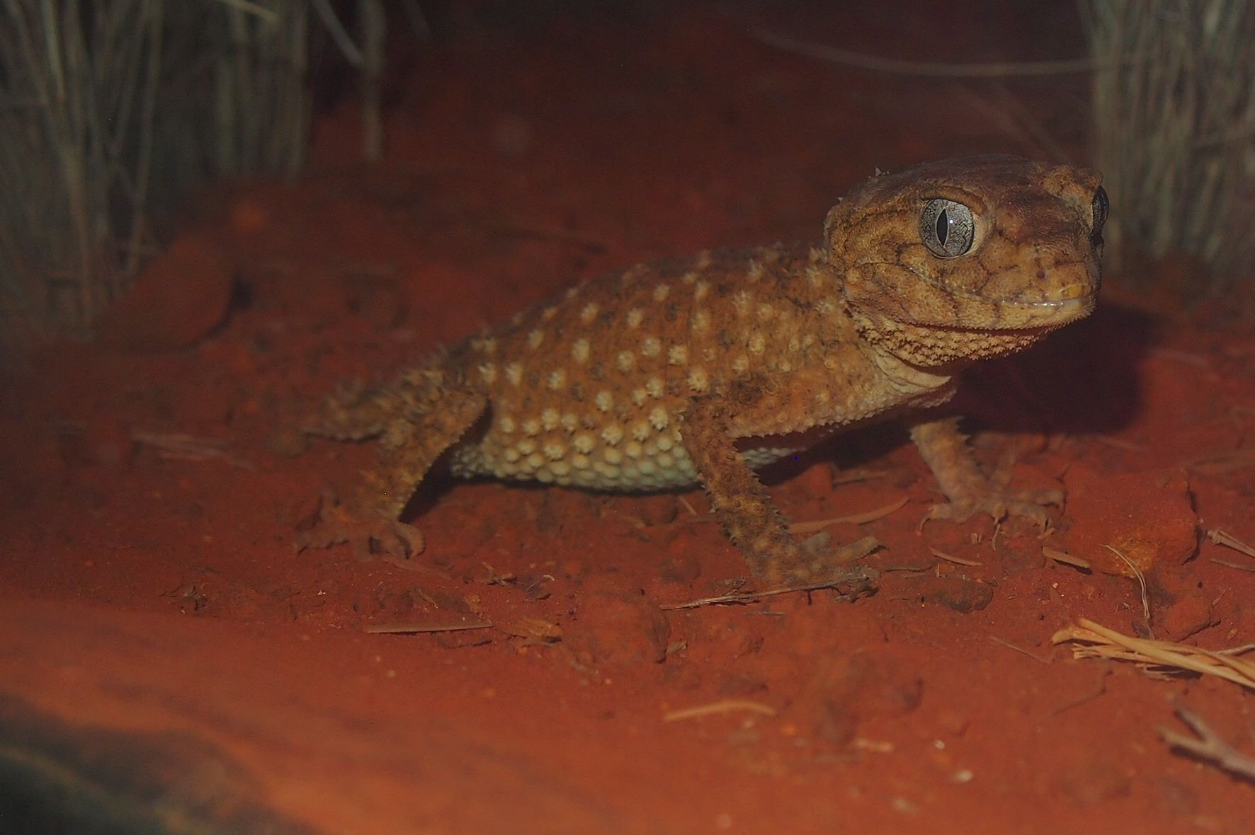 Nephrurus amyae Alice Springs Desert Park